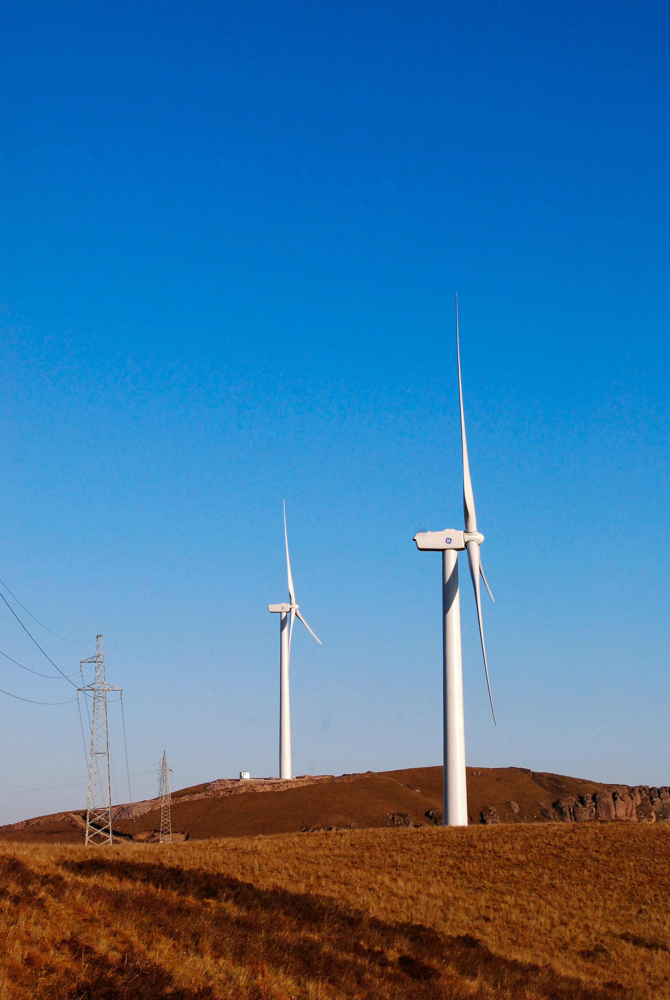 西甸子梁风车